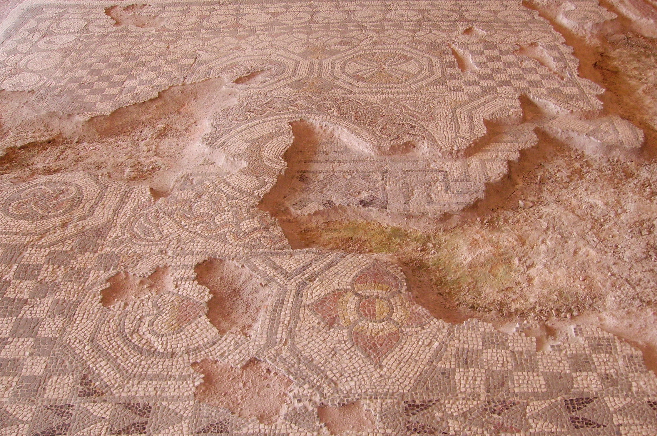 view of Fishbourne Roman Palace in West Sussex, United Kingdom